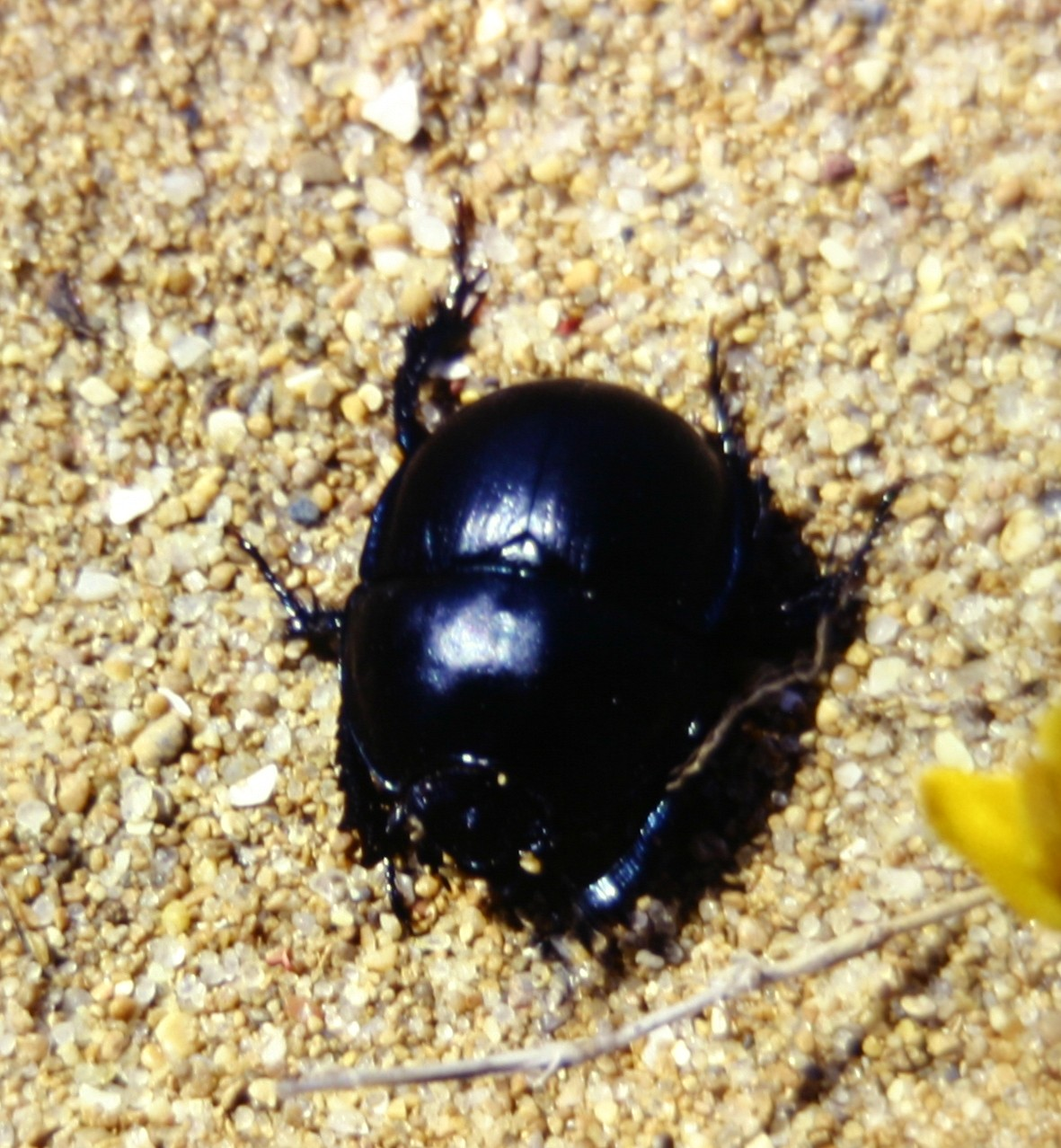 Thorectes marginatus - Sicily